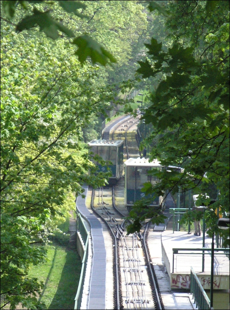 Petřín funicular – both cars passing each other near Nebozízek central station